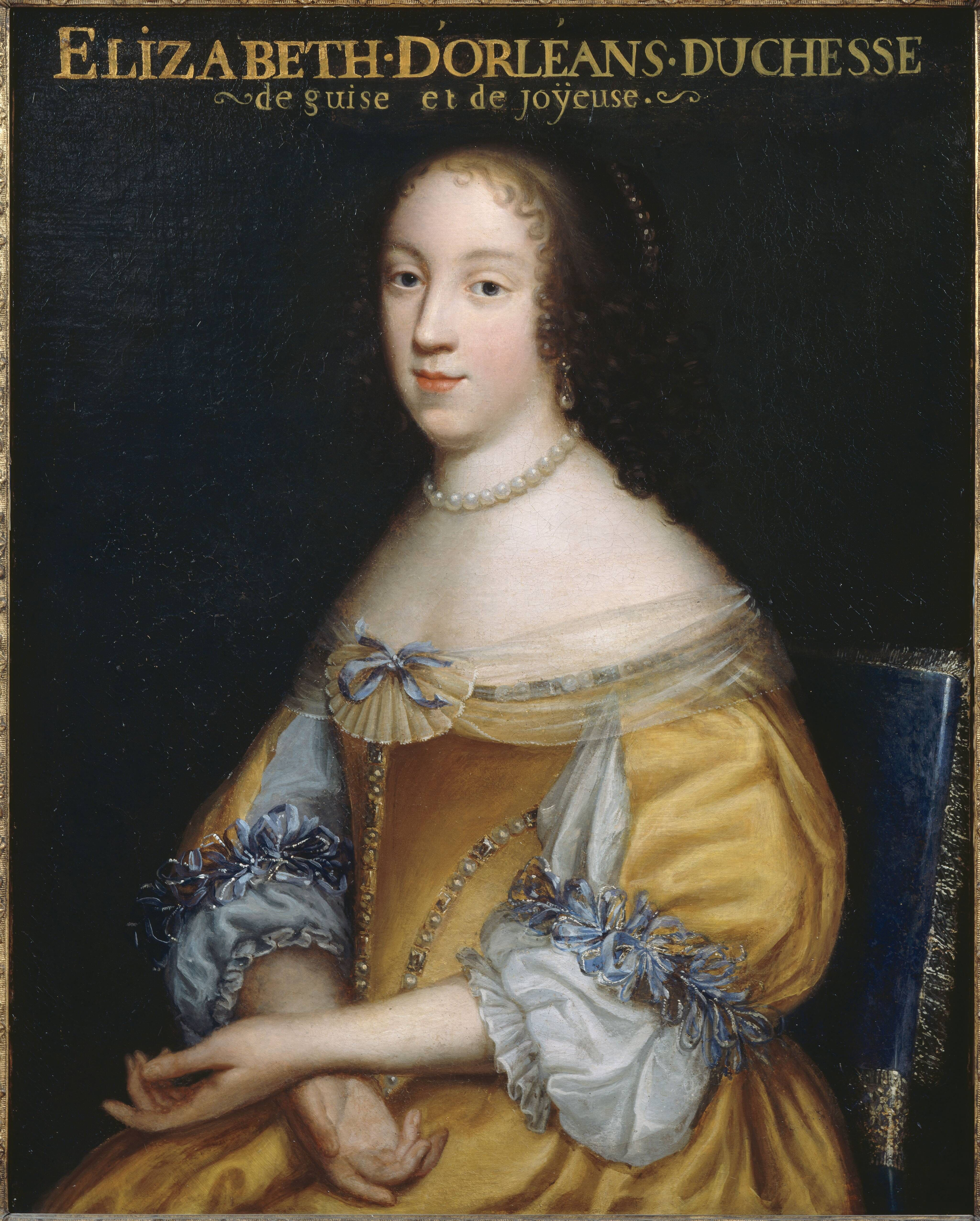 Élisabeth Marguerite d'Orléans (1646-1696), Duchess of Guise